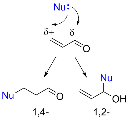 Conjugate addition to aldehydes